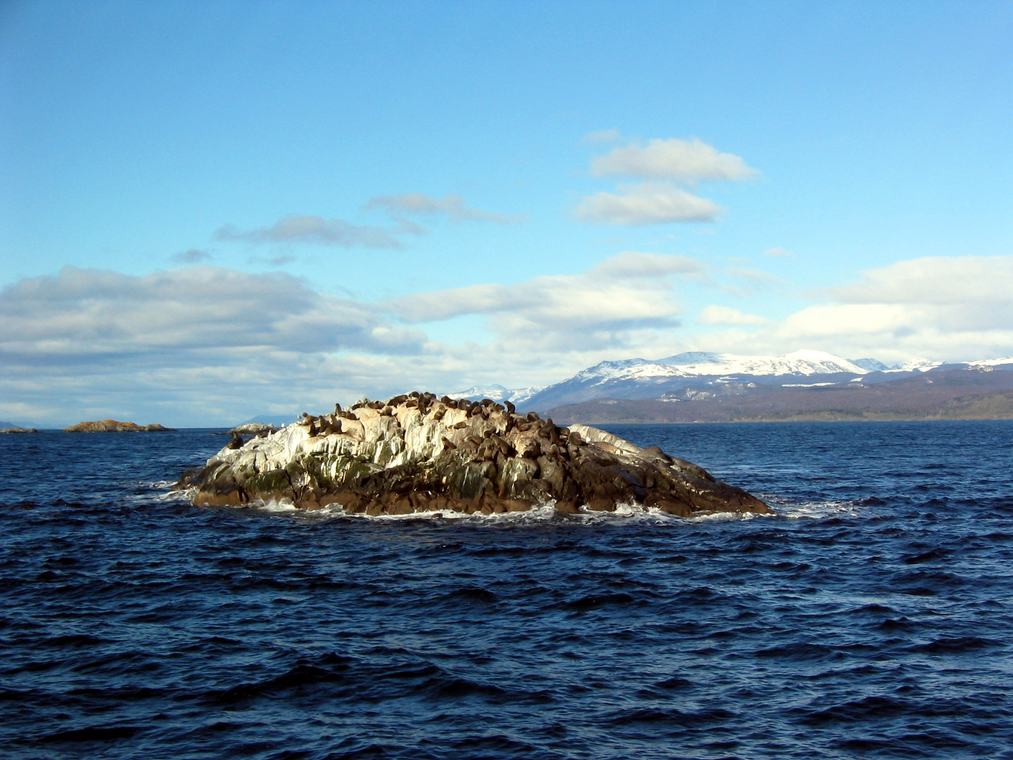 Some sea lions on an islet in the middle of the Beagle Channel between Argentina and Chile